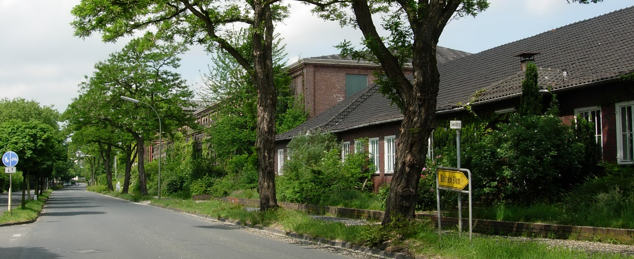 Former administration buildings of the Ewald Fortsetzung coal mine in Erkenschwick, Germany